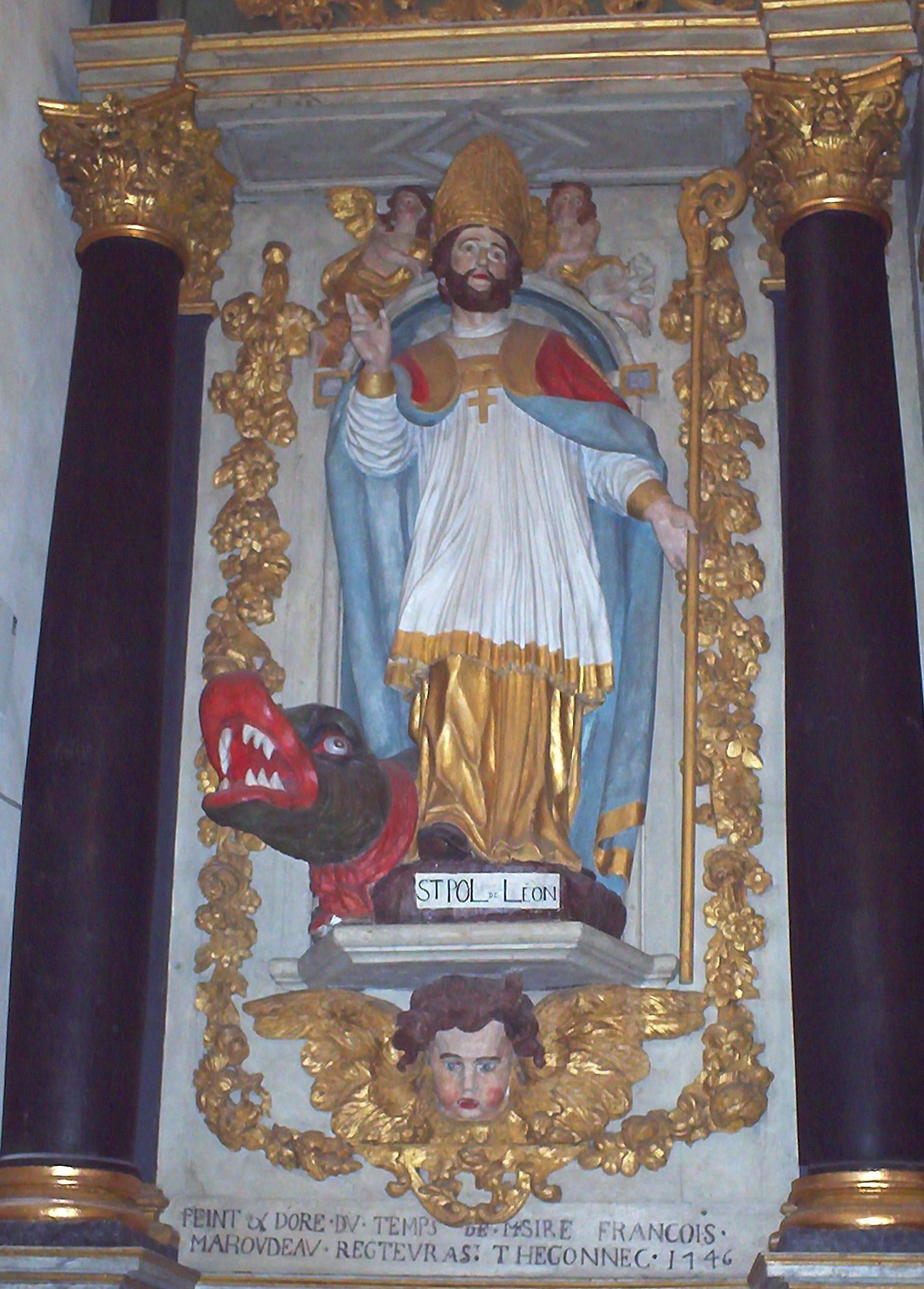 Thegonnec - St Pol